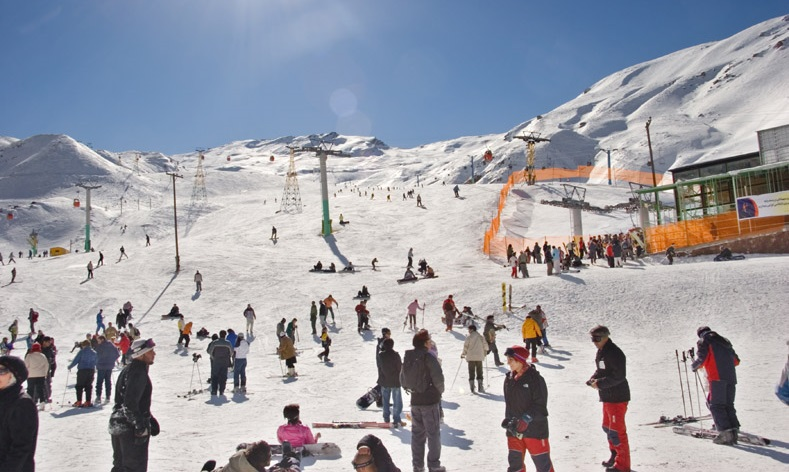 The Dizin ski resort, north-central Iran.